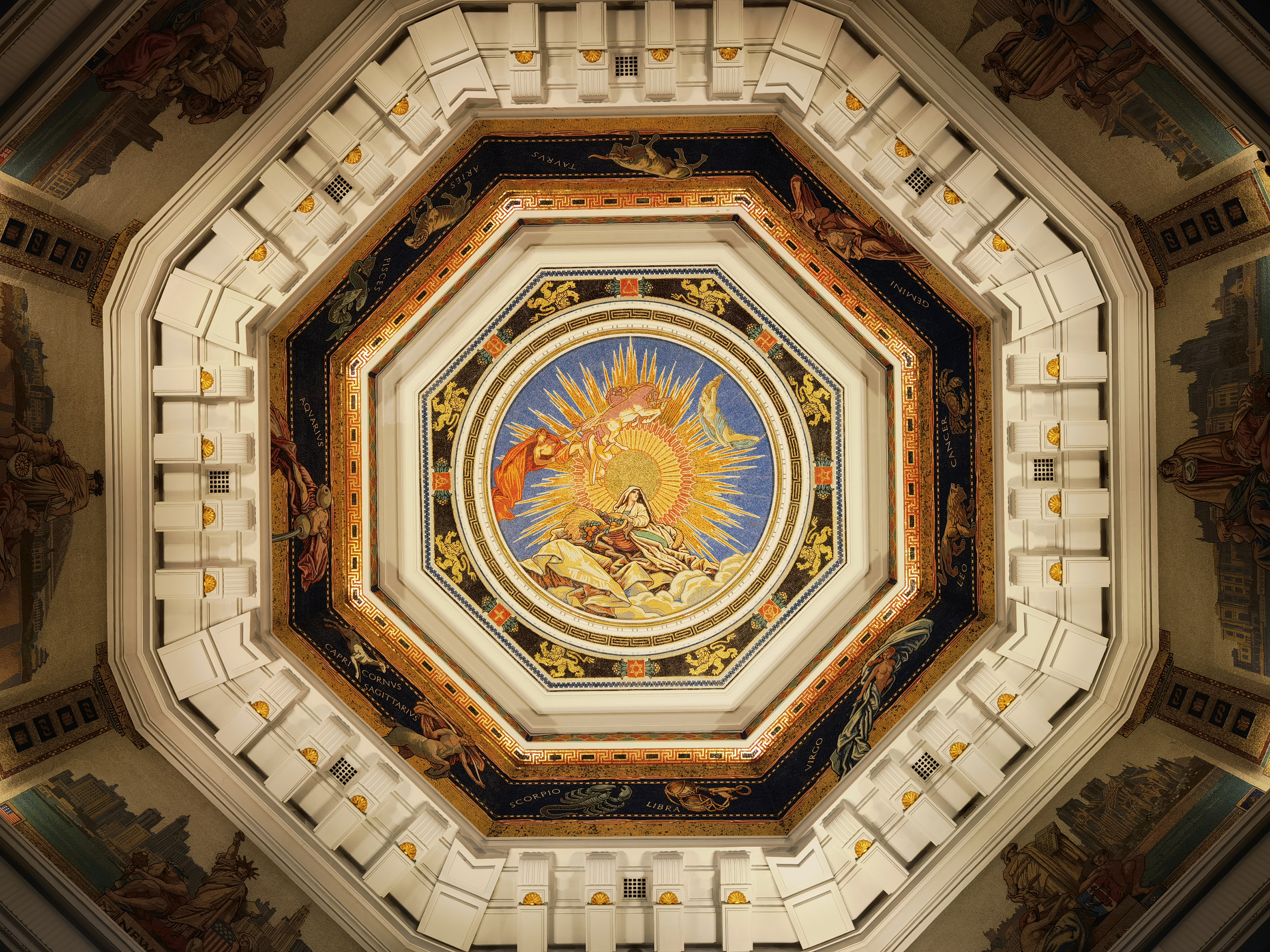 The roof of the HSBC on the Bund in Shang Hai